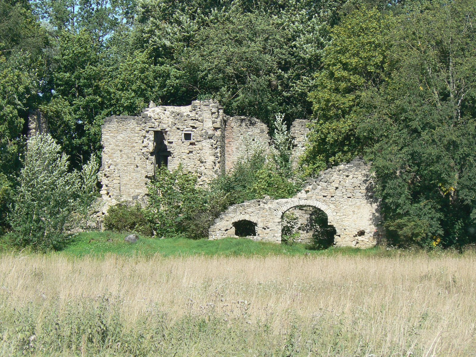 Eastern part of ruins of distillery of Pööravere Manor